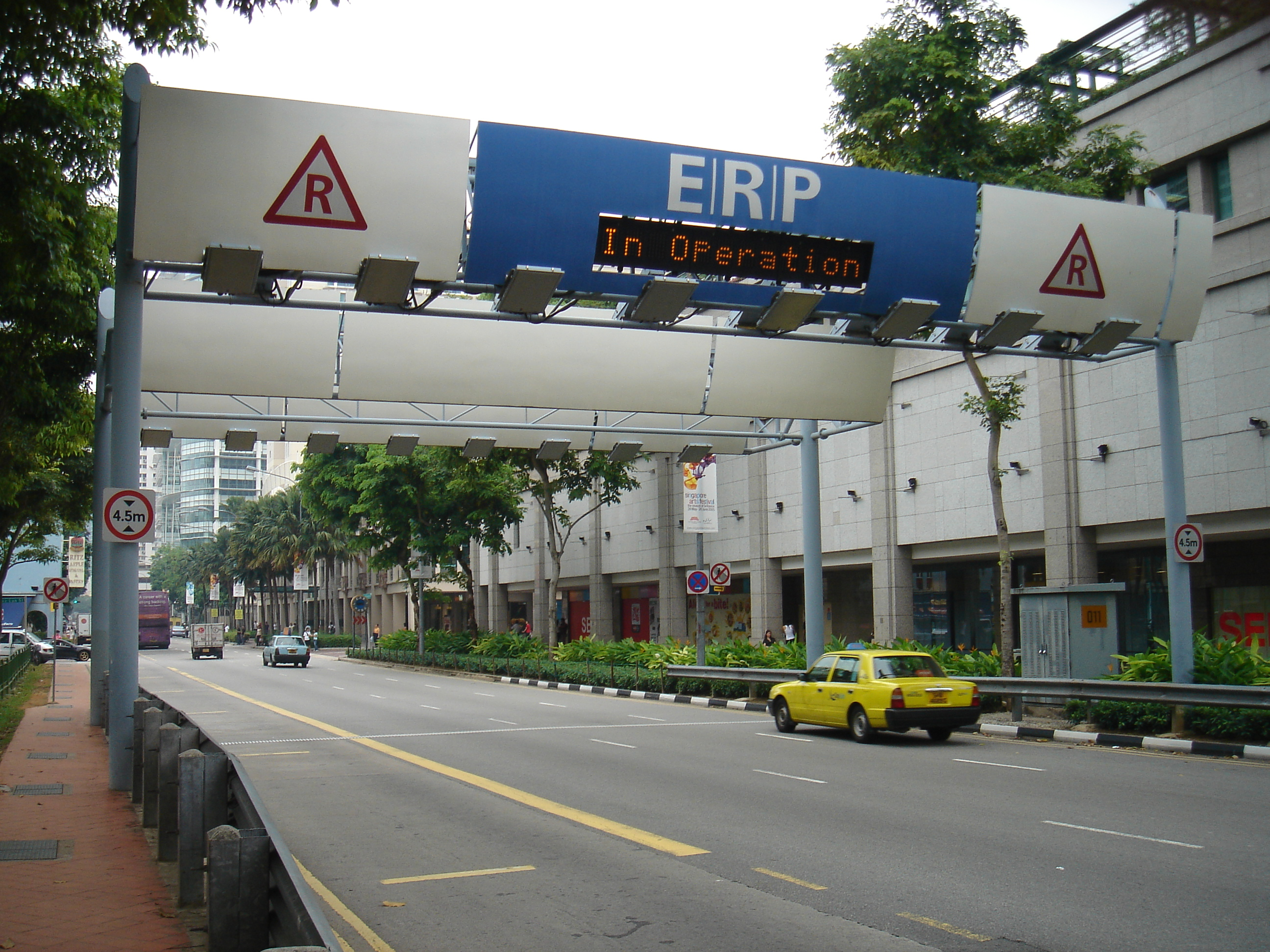 ERP Gantry at North Bridge Road, next to PARCO Bugis Junction.